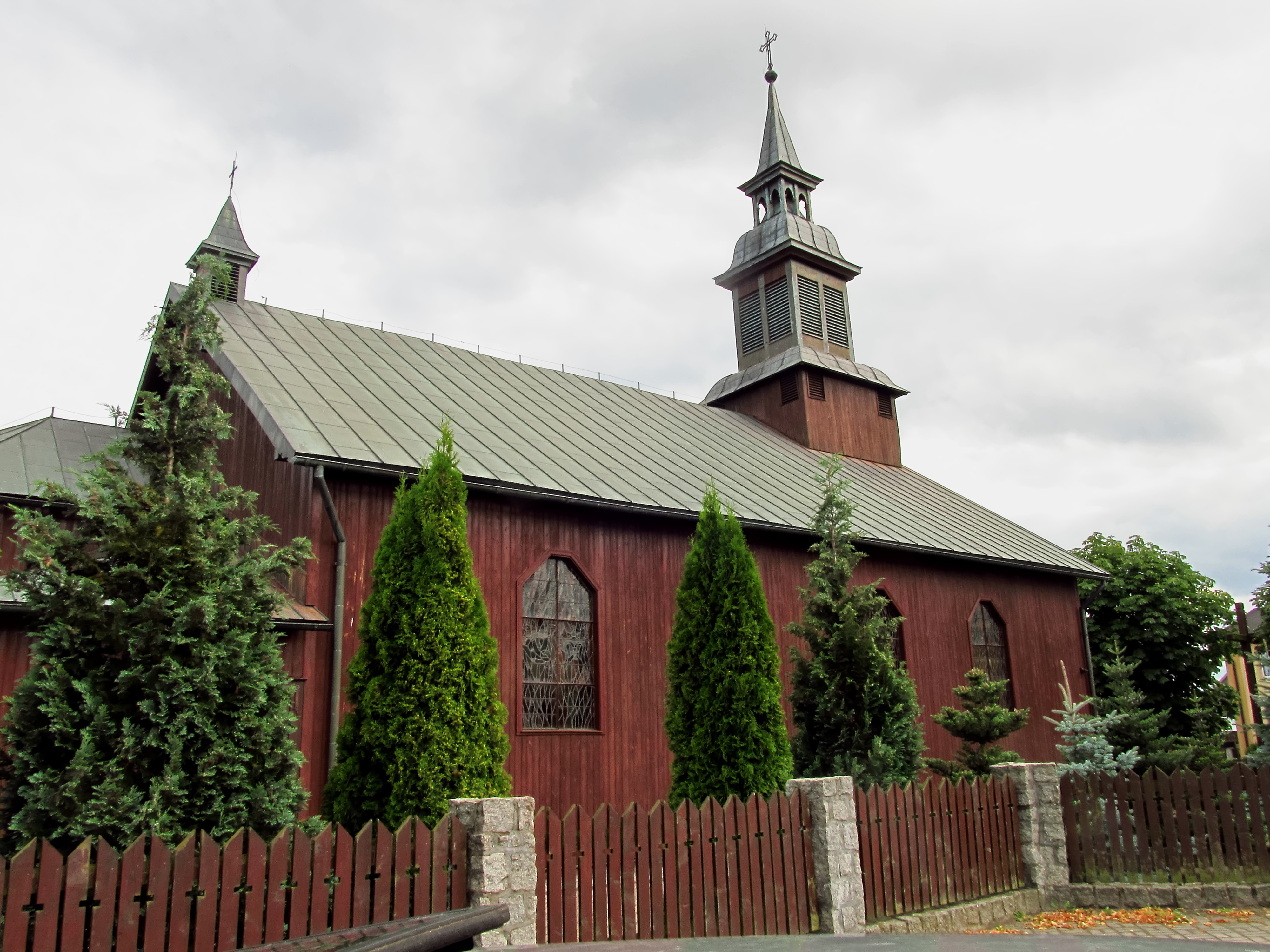 View of the church from the Church Street